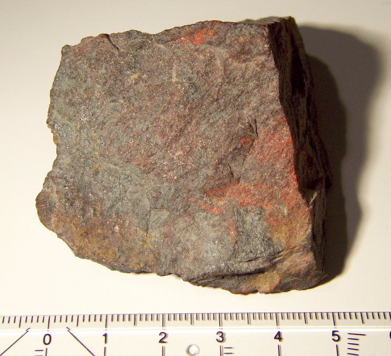 Lerbachite (Hg,Pb)Se a mixture of Clausthalite (PbSe) + Tiemannite (HgSe), locality: Harz/Germany